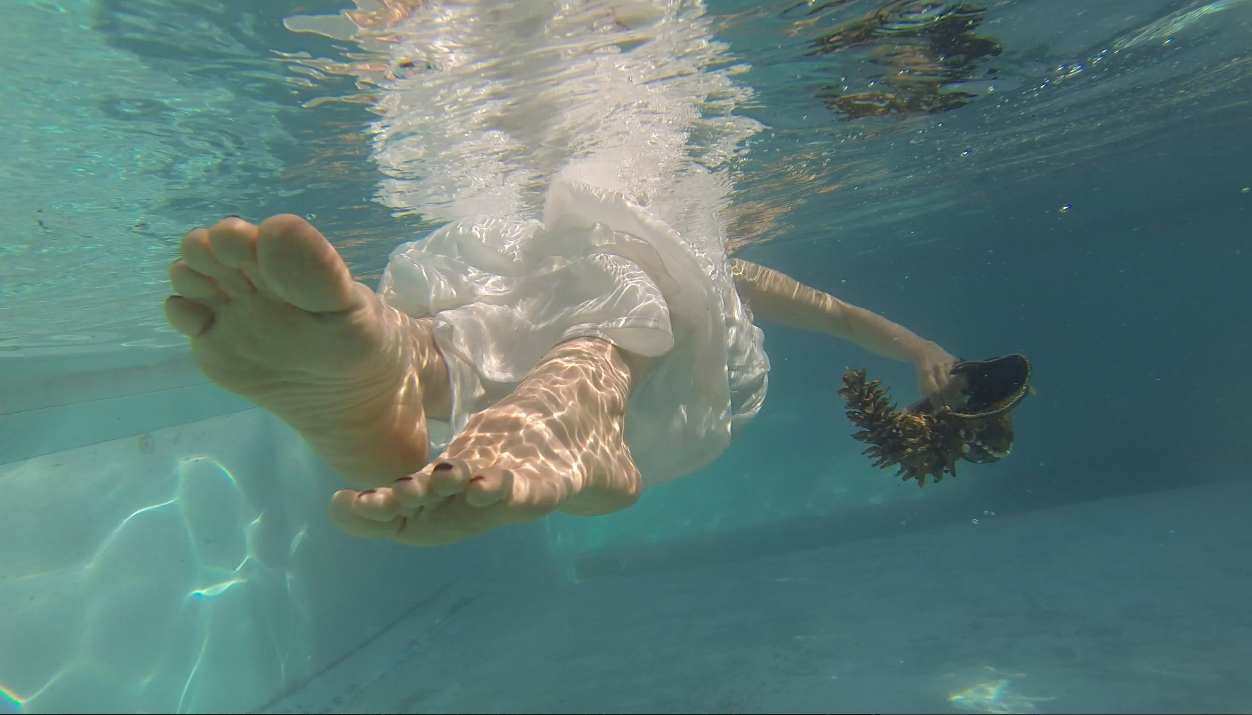 Video Still